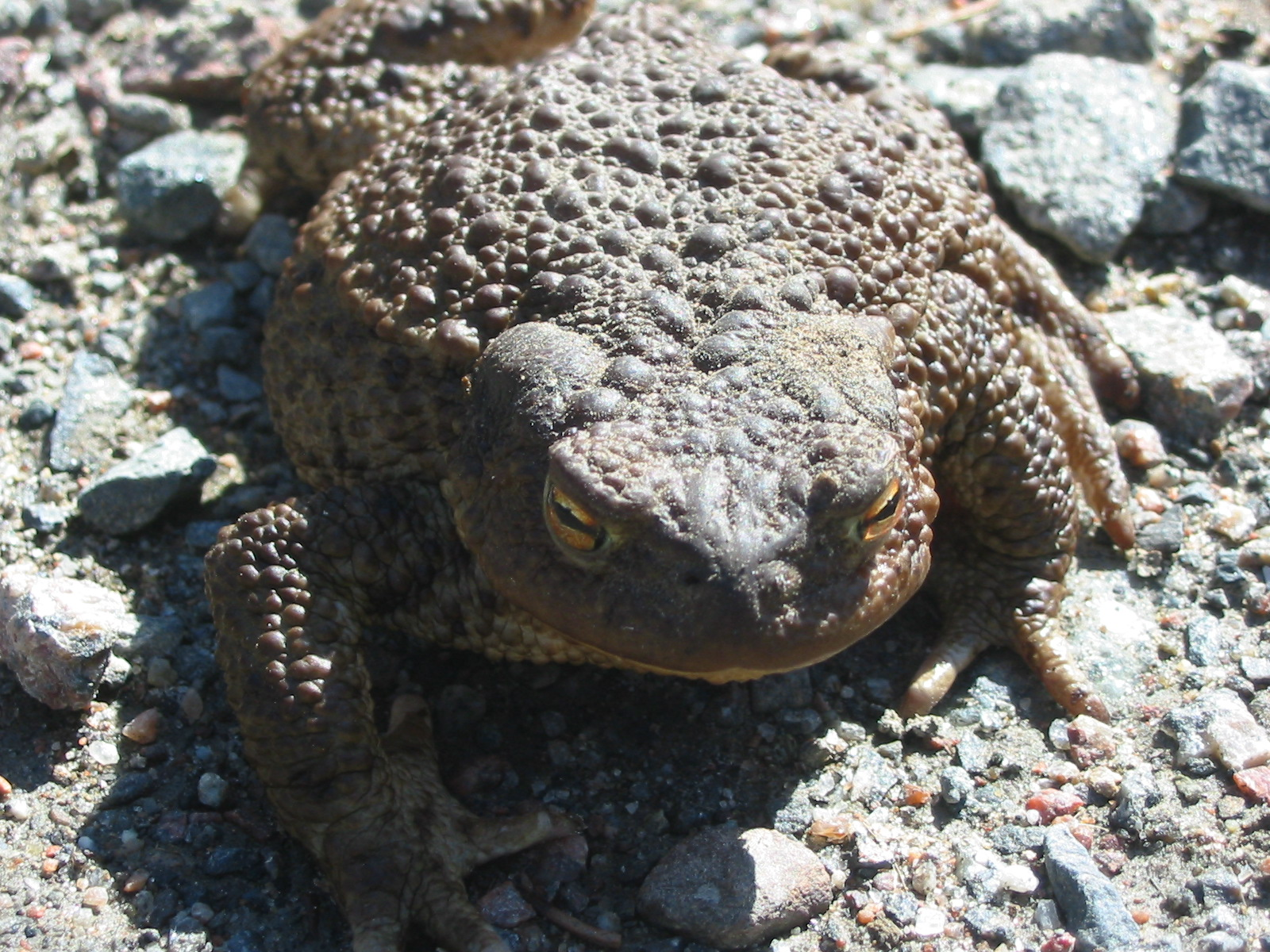 Bufo bufo, photo taken in Ypäjä, Finland 24yh april 2011